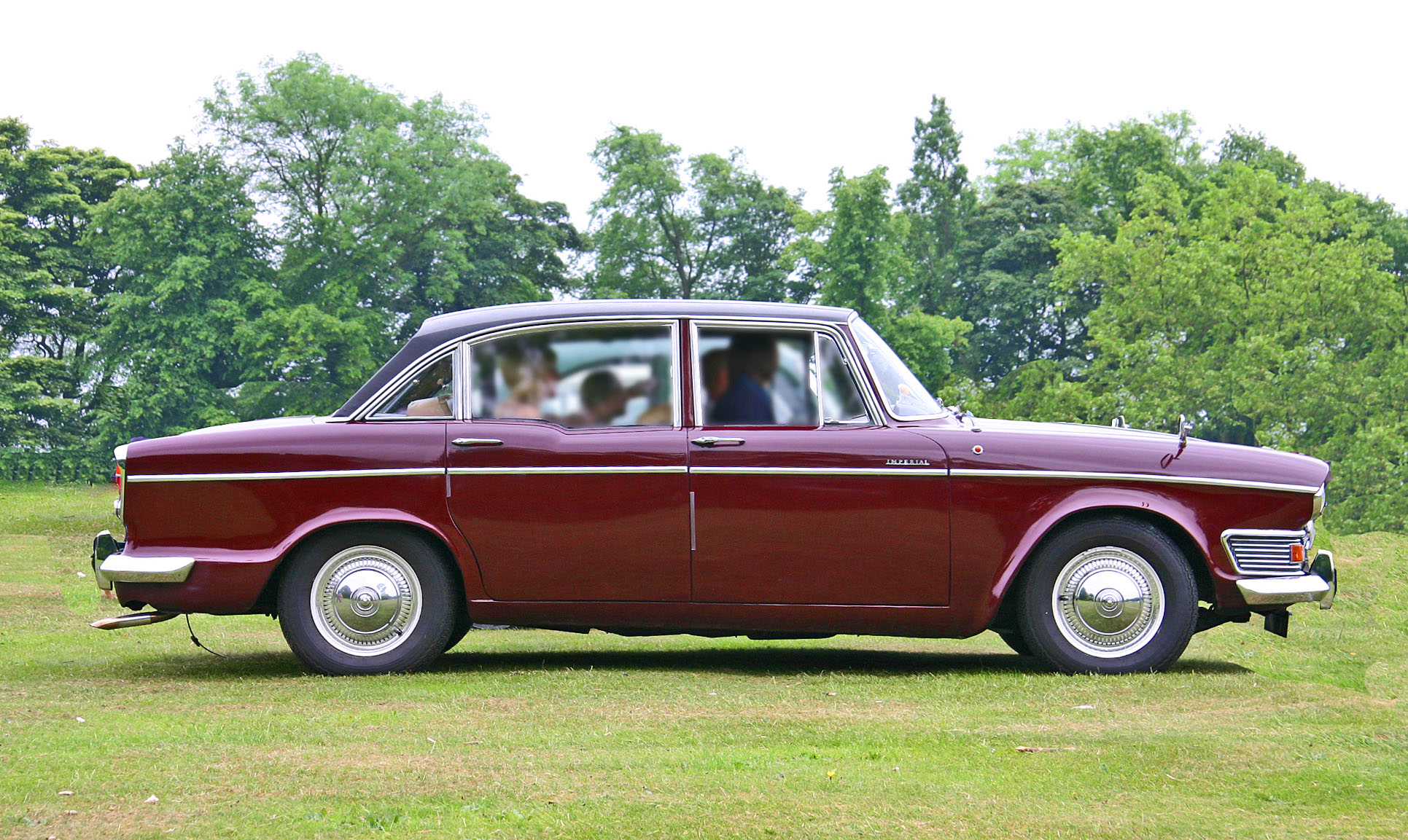 Mechanically identical to the Humber Super Snipe Series V also introduced in 1964, the Humber Imperial was a more luxurious version, and usually was distinguishable by its vinyl roof covering